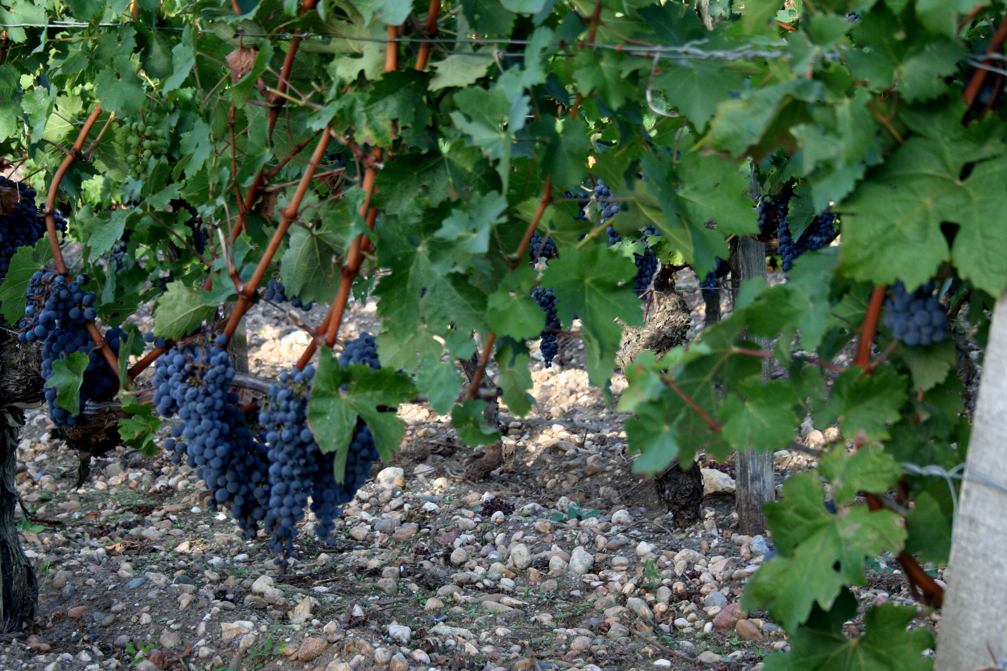 Cabernet Sauvignon grapes growing in the French wine region of Bordeaux